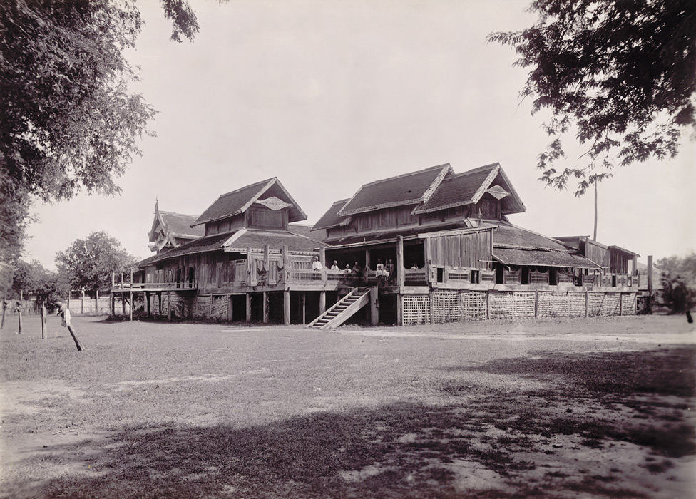 Photograph of the Kinwun Mingyi’s house at Mandalay in Burma (Myanmar), from the Archaeological Survey of India Collections: Burma Circle, 1903-07. The photograph was taken by an unknown photographer in 1903 under the direction of Taw Sein Ko, the Superintendent of the Archaeological Survey of Burma at the time. This is a view of Kinwun Mingyi’s private home, a wooden building raised on piles with a tiered roof, indicative of the high status of its occupant. It was situated near the Royal Palace at Mandalay, as the ministers of the King were required to live close by. The Kinwun Mingyi was the Burmese Prime Minister, a position last held under the Burmese monarchy by the Honorable U Gaung, Councillor of the Emperor and a Companion of the Star of India. Mandalay, in Upper Burma, was the last capital of the Burmese kings, and was founded in 1857 by King Mindon Min (reigned 1853-1878).